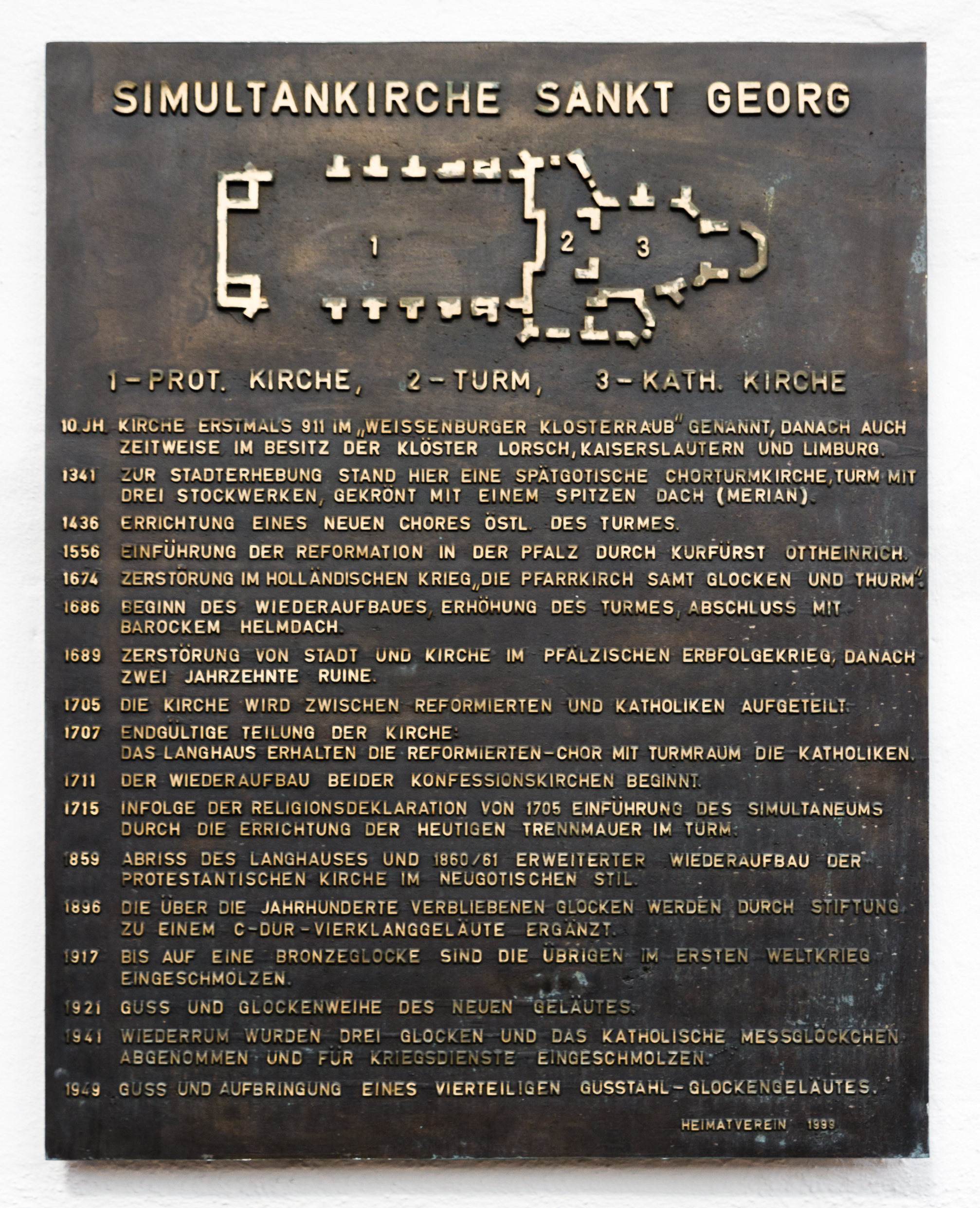 This is a photograph of an architectural monument.It is on the list of cultural monuments of Wachenheim an der Weinstraße Designation: Shared church St. Georg Construction time: 12th century Description: Picturesque staggered building group Tower possibly still from the 12th century, bell storey 1686–88, increasing designated 1712. Late gothic choir, second quarter of the 15th century, post-gothic little choir 1720/21. Side chapel 1441, sacristy second half of the 15th century. Neo-gothic nave, 1860/61, architects K. Kaercher, Neustadt, extension by Franz Schöberl, Speyer. In front of the choir: late baroque sandstone cross, designated 1753. Procession-altar, monumental yellow sandstone altar, allegedly 1707 by Johann Georg Eisinger. Pietà, second half of the 16th century. Townscape formative with the Bruder-Ludwig-Kapelle (Weinstraße 27). Place: Wachenheim an der Weinstraße, Collective municipality Wachenheim, District Bad Dürkheim, Rhineland-Palatinate, Germany Location: Weinstraße House number: 28